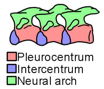 A diagram showing the shape and components of the vertebrae of Trihecaton howardinus, a microsaur from Colorado. Coloration is inspired by "File:Tetrapod vertebrae.svg" and the outline is based on an illustration from Carroll & Gaskill (1978)